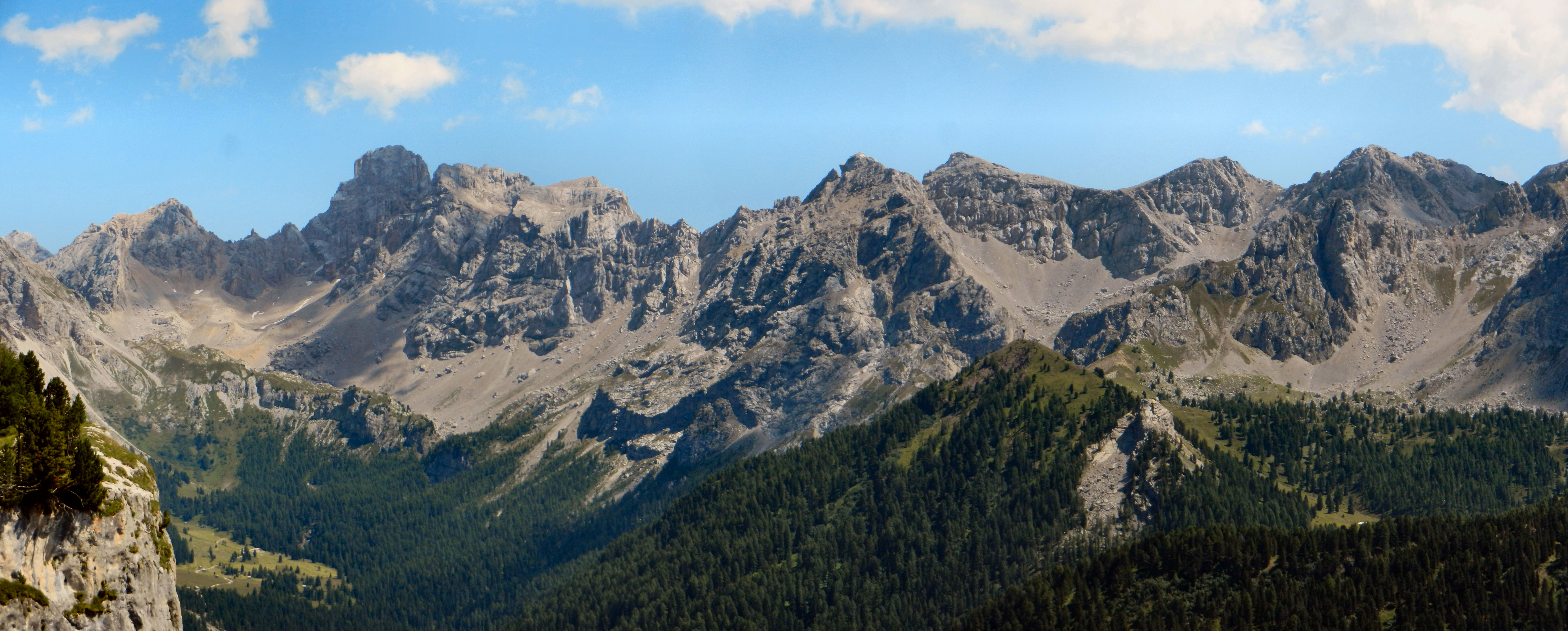 Dolomites, Cima dell'Uomo and Mount Costabella from Buffaure (Pozza di Fassa)